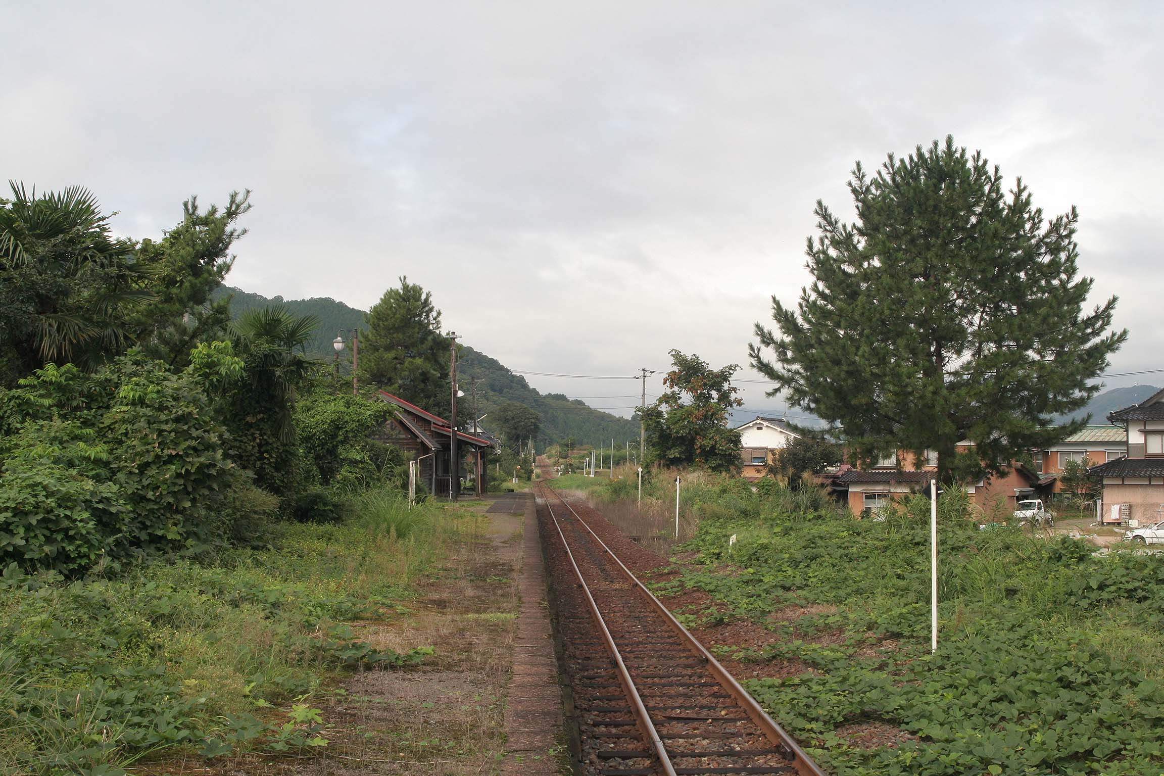 Wakasa Railway Hayabusa Station enclosure